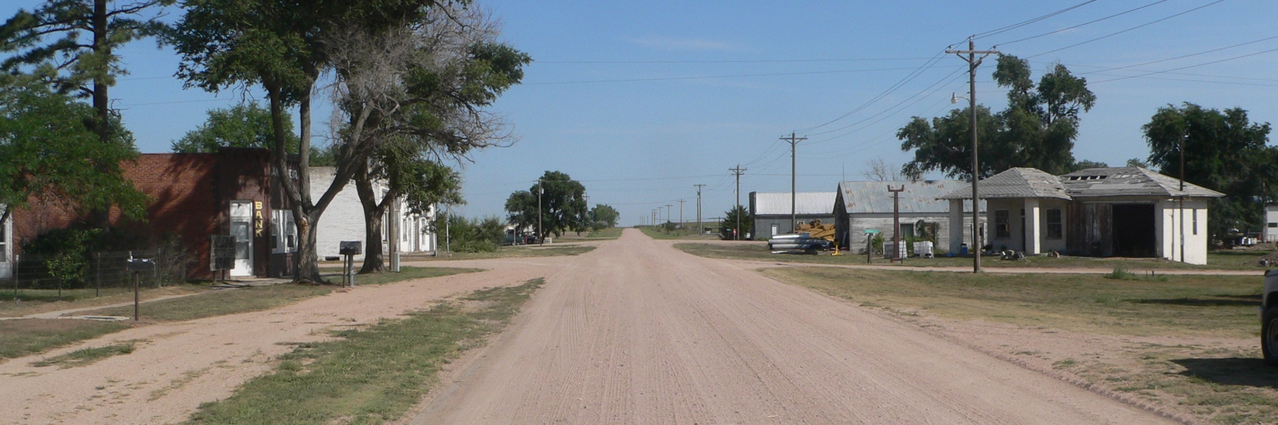 Downtown Lamar, Nebraska: Pawnee Street, seen looking north from south of Arapahoe Street.